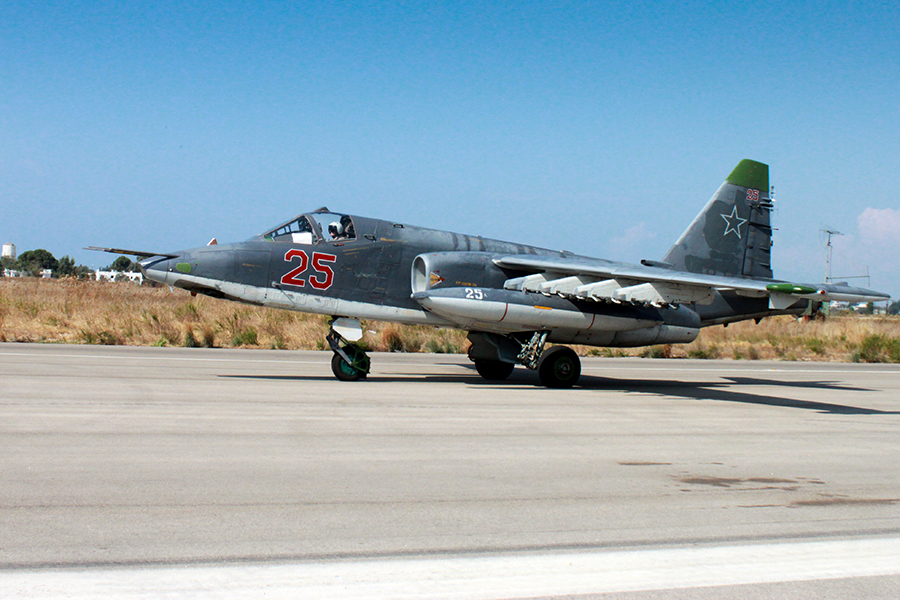 Russian military aircraft at Latakia, Syria